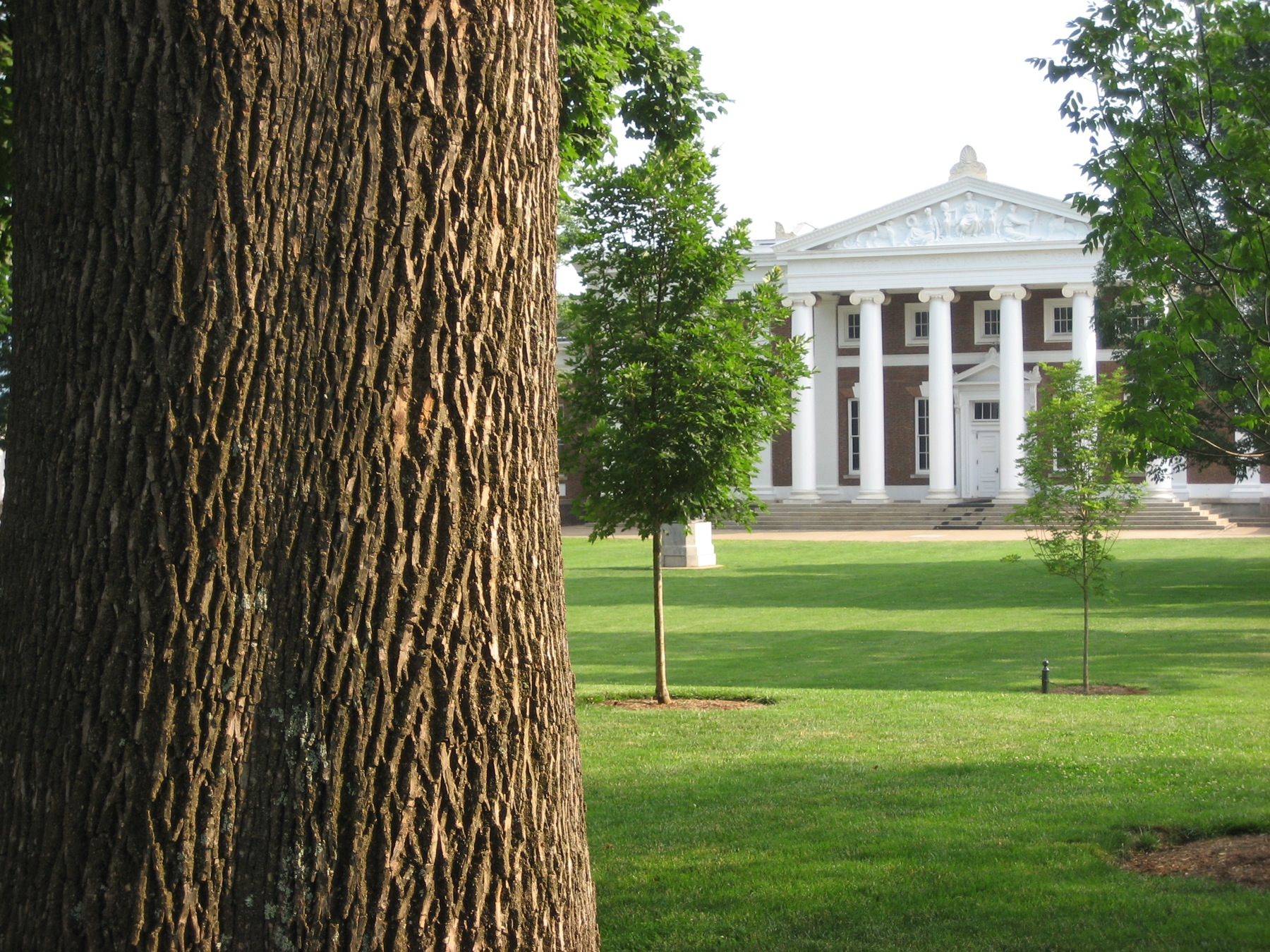 Old Cabell Hall viewed from the Lawn at the University of Virginia, USA